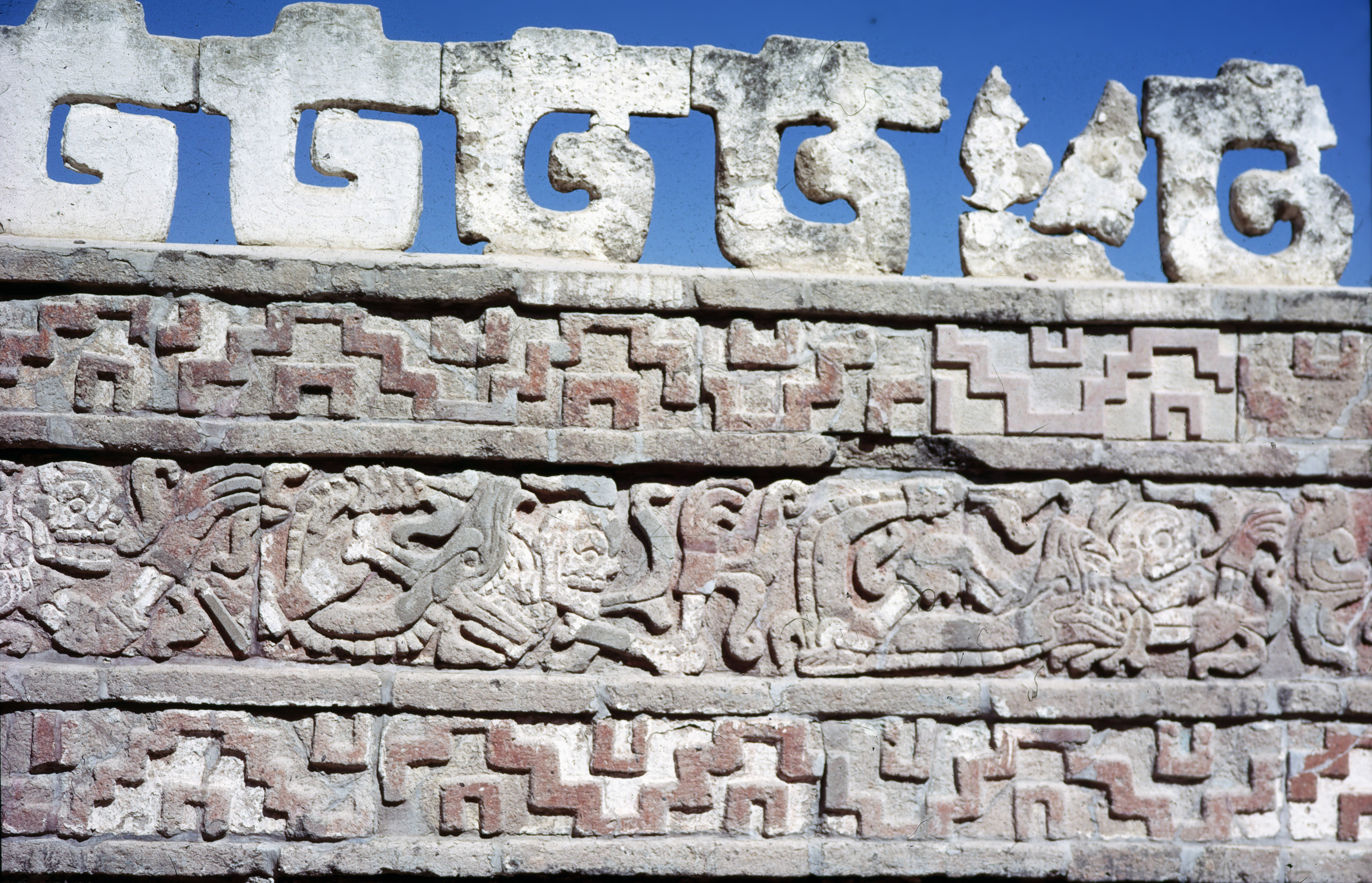 Tula, Hidalgo, Mexico: Coatepantli